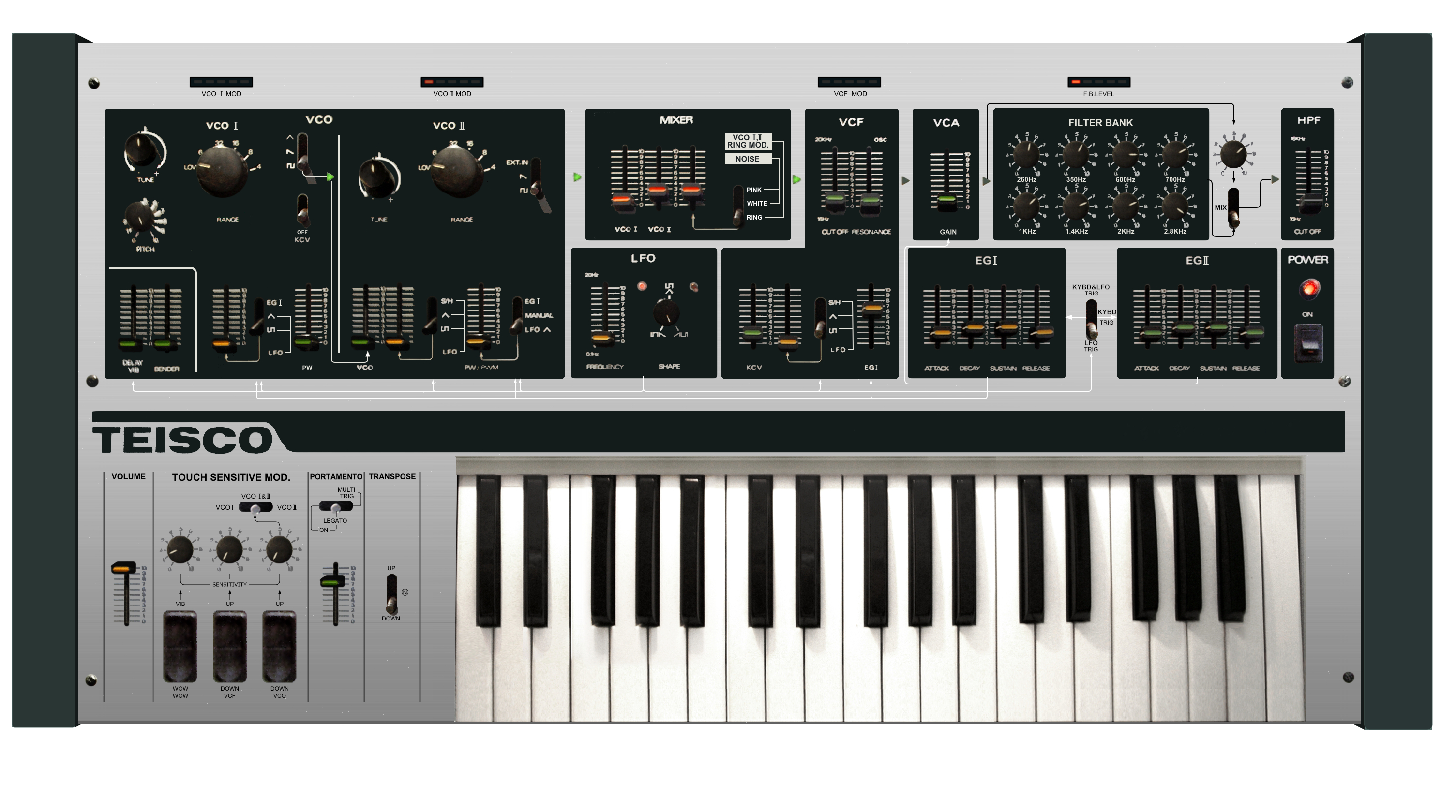 Teisco Synthesizer 110F (S110F) Note: this image was synthesized from Image:Teisco S60F.jpg (derived from Image:Teisco S60F (front-left).jpg and Image:Teisco S60F (front-right).jpg).